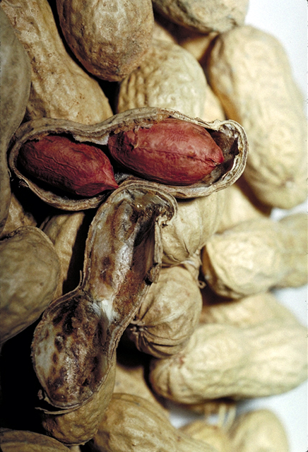 Close up peanuts